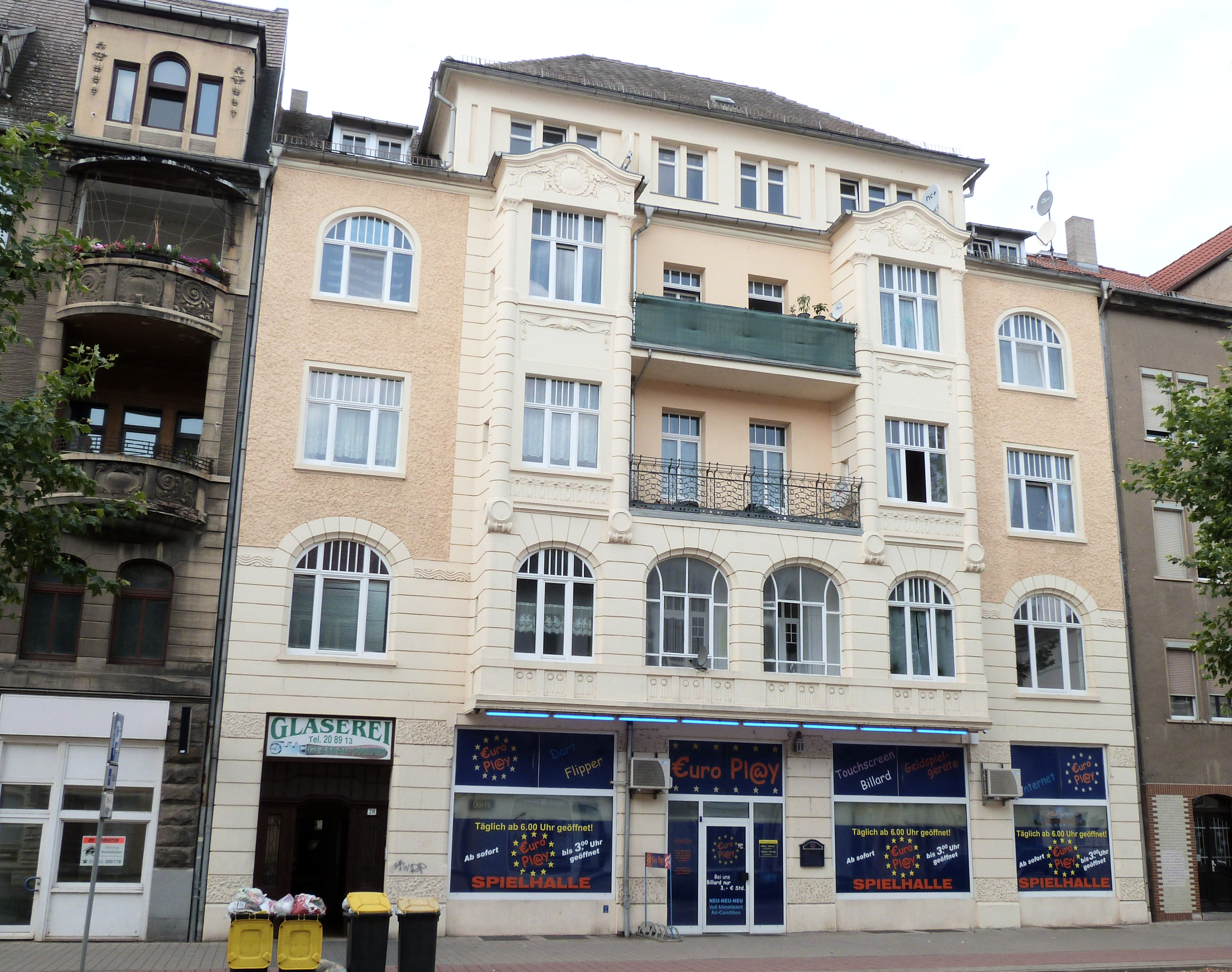 House No. 28, Merseburger Strasse, Weissenfels, Saxony-Anhalt